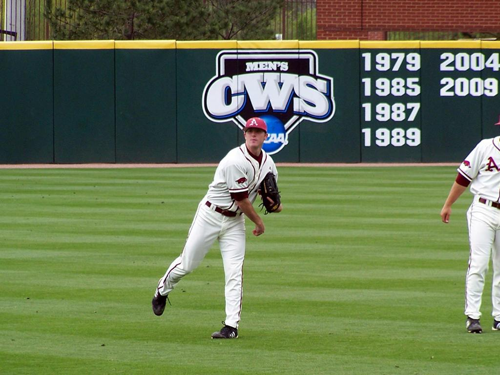 Matt Vinson playing catch as a member of the 2010 Arkansas Razorbacks in Baum Stadium, Fayetteville, Arkansas, USA.